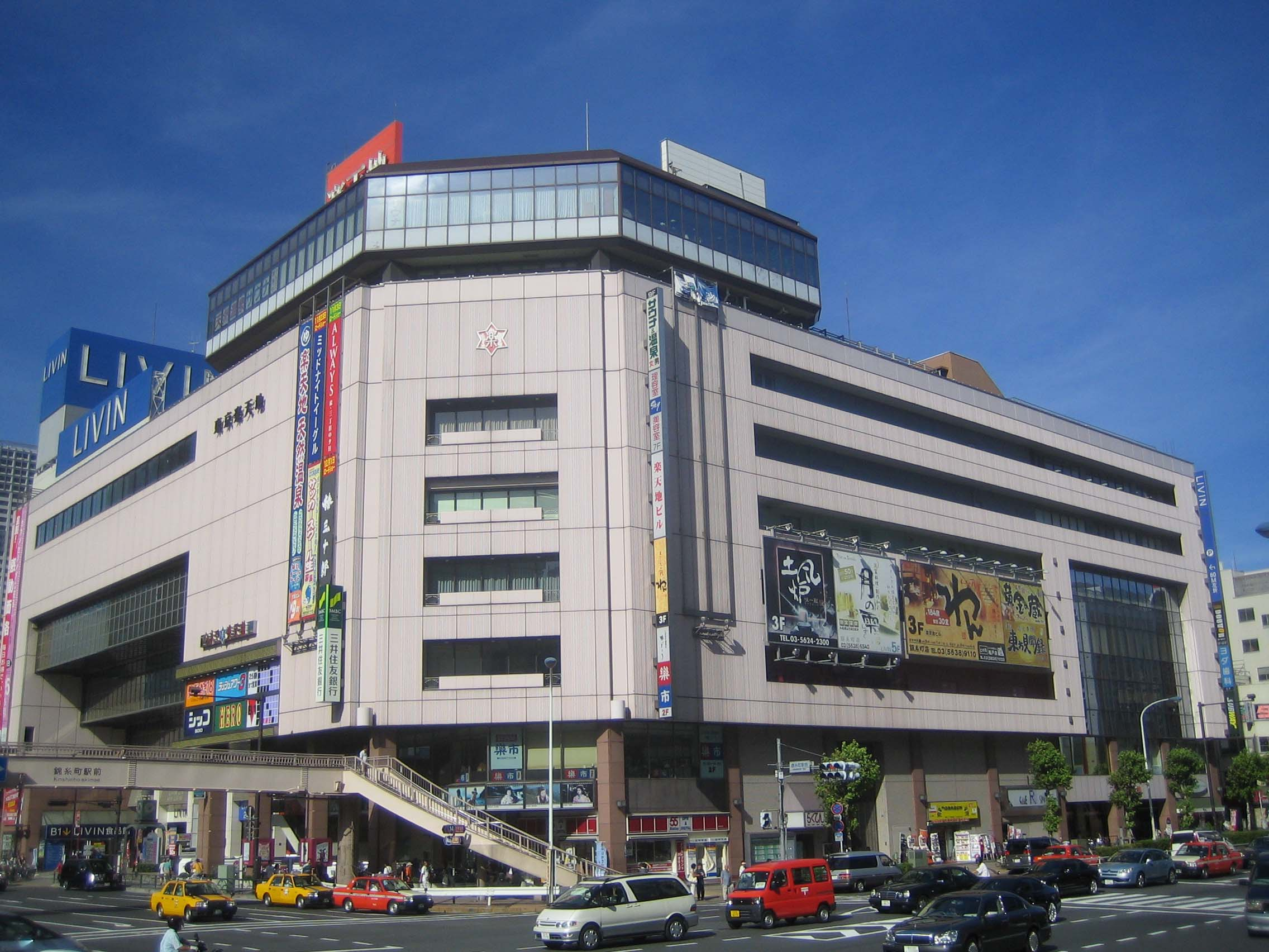 Rakutenchi Building (楽天地ビル), at Kotobashi, Sumida, Tokyo, Japan